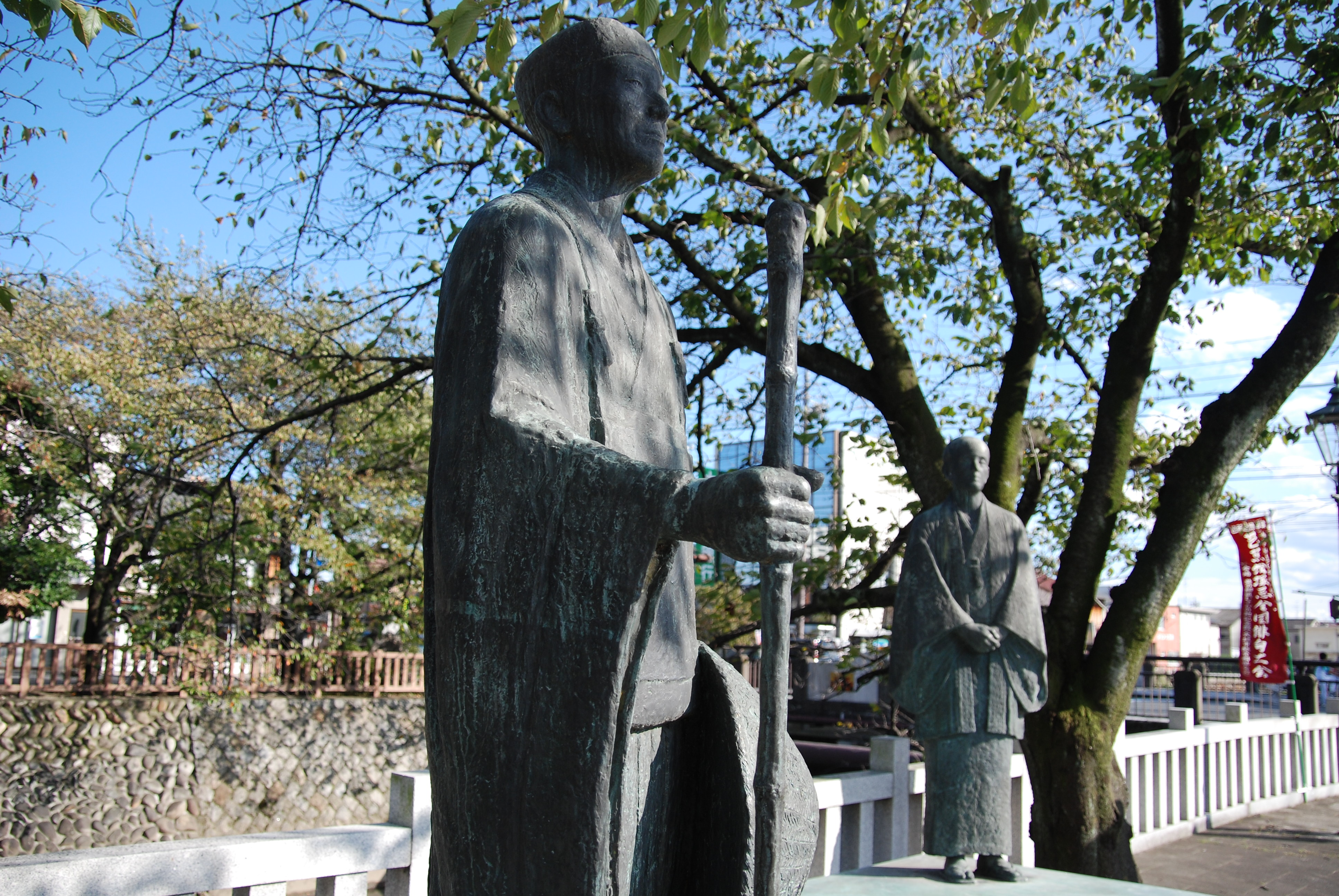 A statue of Matsuo Basho commemorating the end of his journey in Ōgaki, Gifu Prefecture, Japan